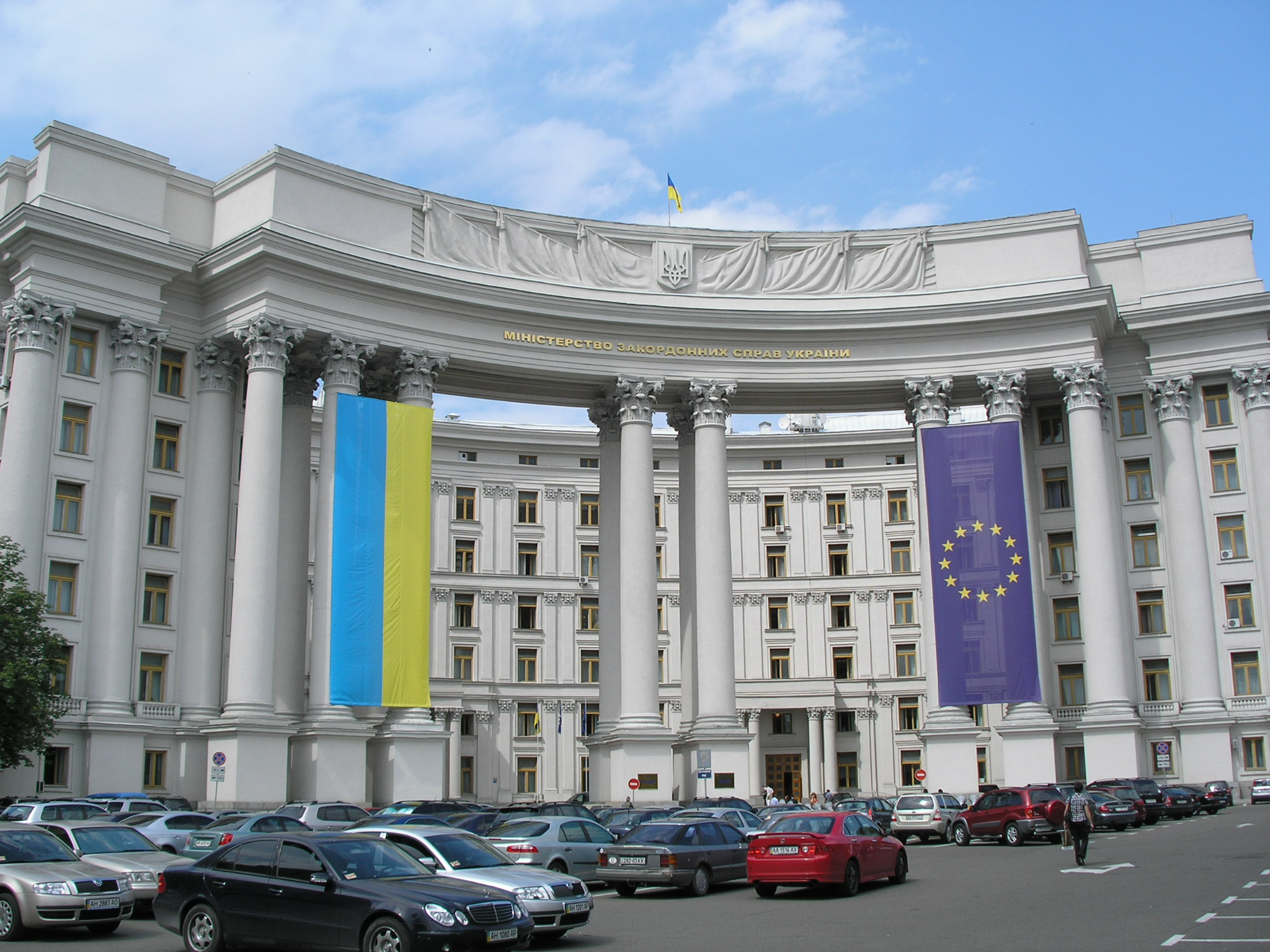 The Ministry of Foreign Affairs of Ukraine is located in the Ukrainian capital Kiev.